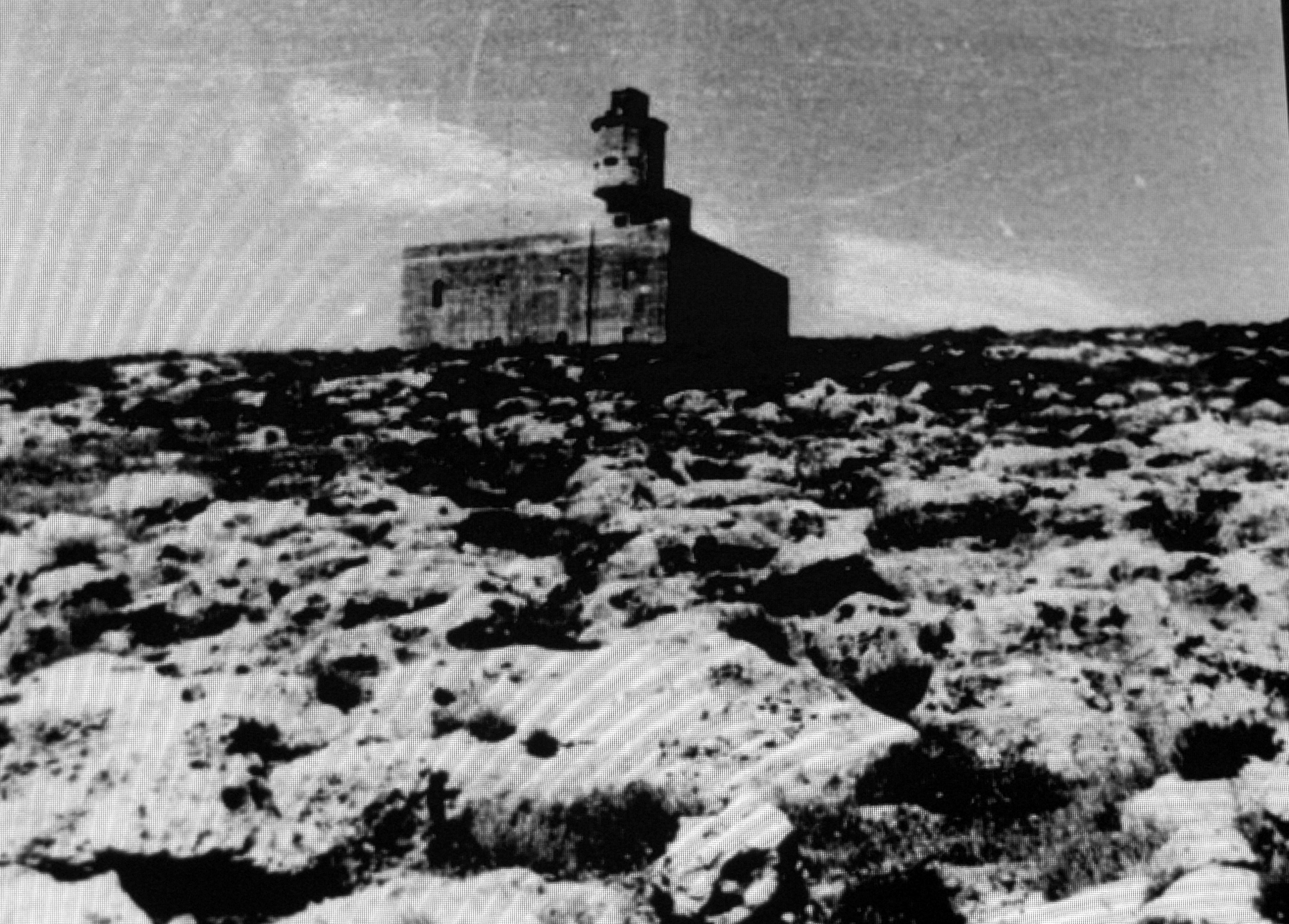 Nabi Yosha.